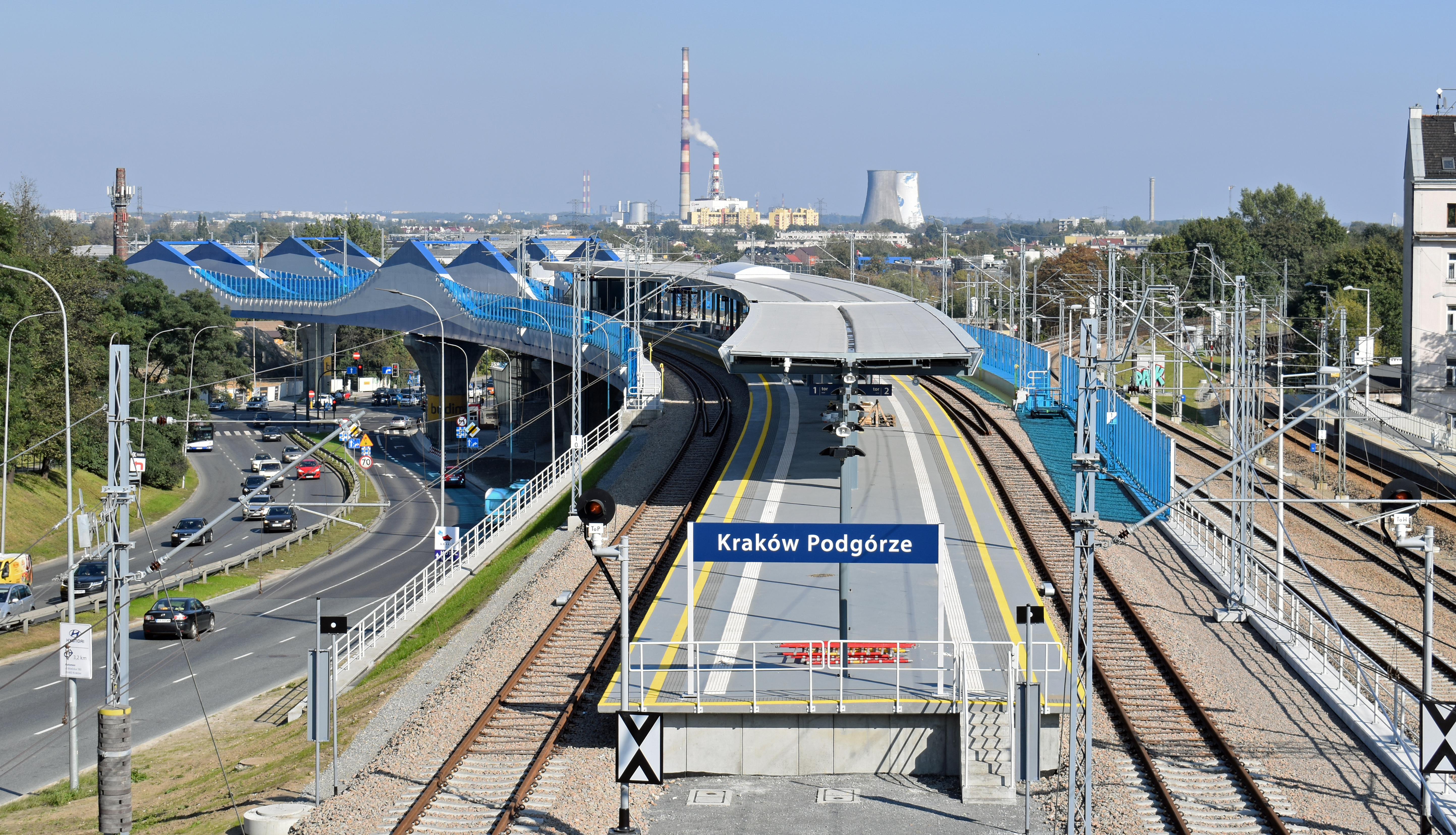 Railway line 624 (Poland), Krakow Podgorze train station-view from W, 1 Wielicka street, Krakow, Poland